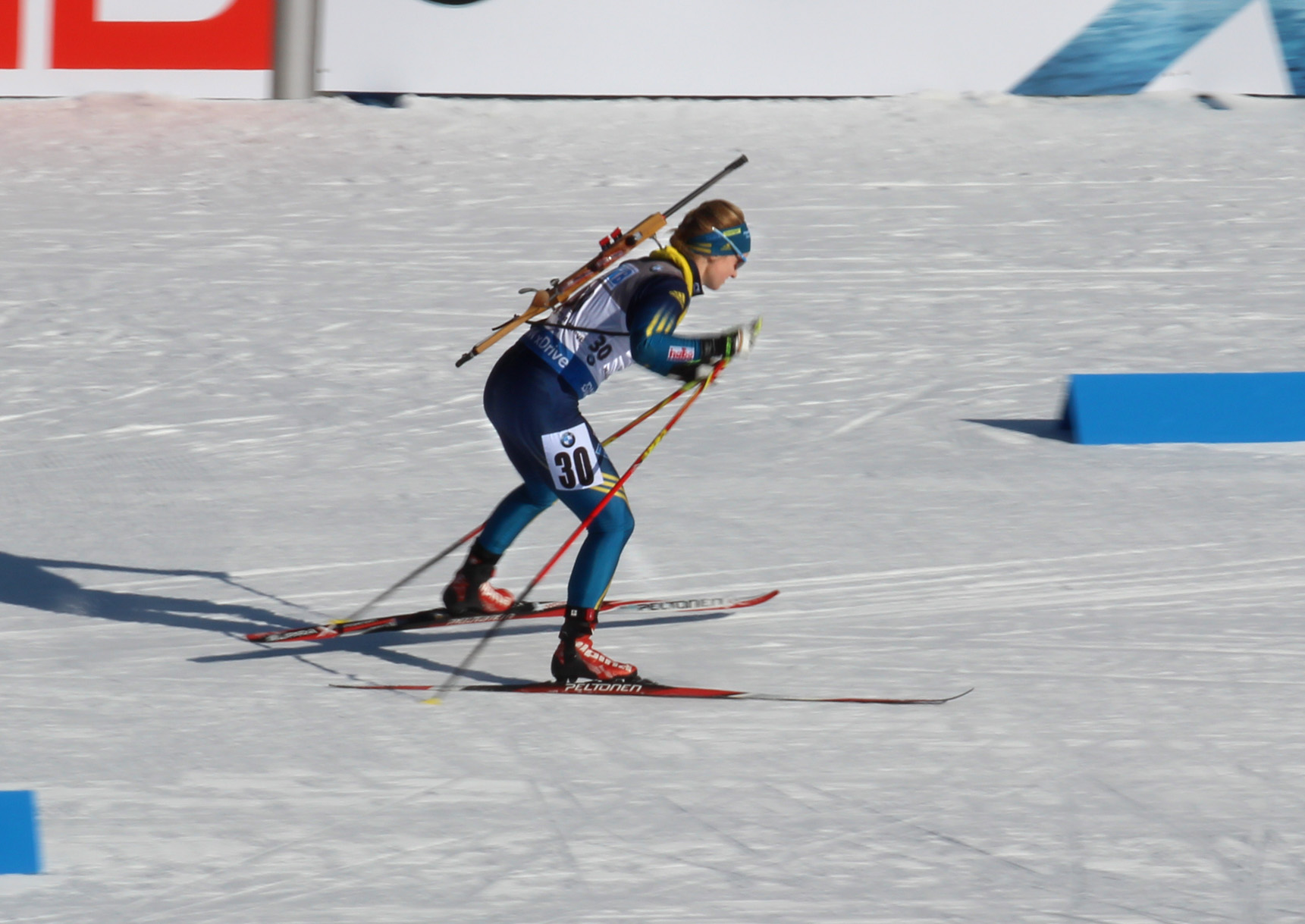 Mona Brorsson at Biathlon World Cup 2015 in Nové Město, Czech Republic – sprint women